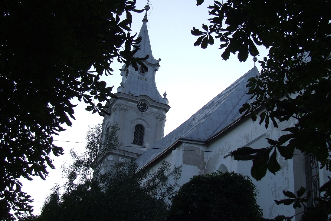 Church in Tăşnad town, Satu Mare County, Romania